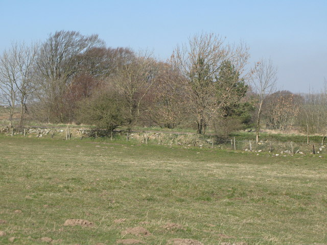 (The site of) Turret 22a, near to Halton, Northumberland, Great Britain. About 200m to the west of NY9868 : (The site of) Roman Portgate .